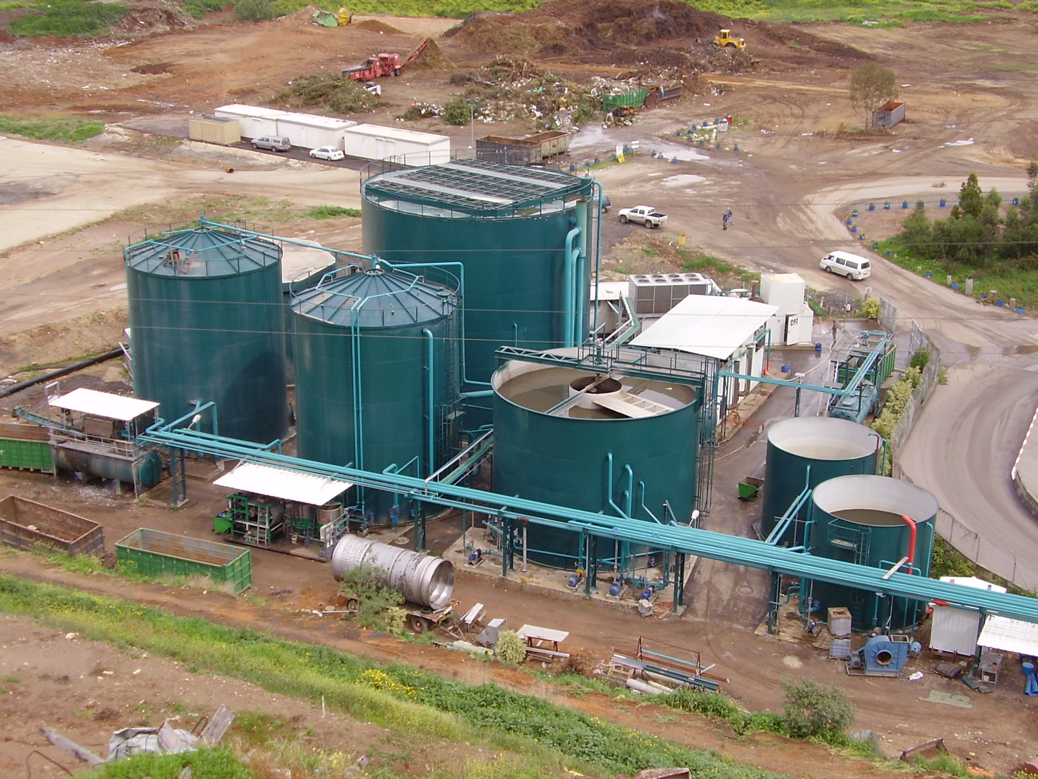 Photograph of anaerobic digesters, Tel-Aviv 2005. Photographer: Alex Marshall